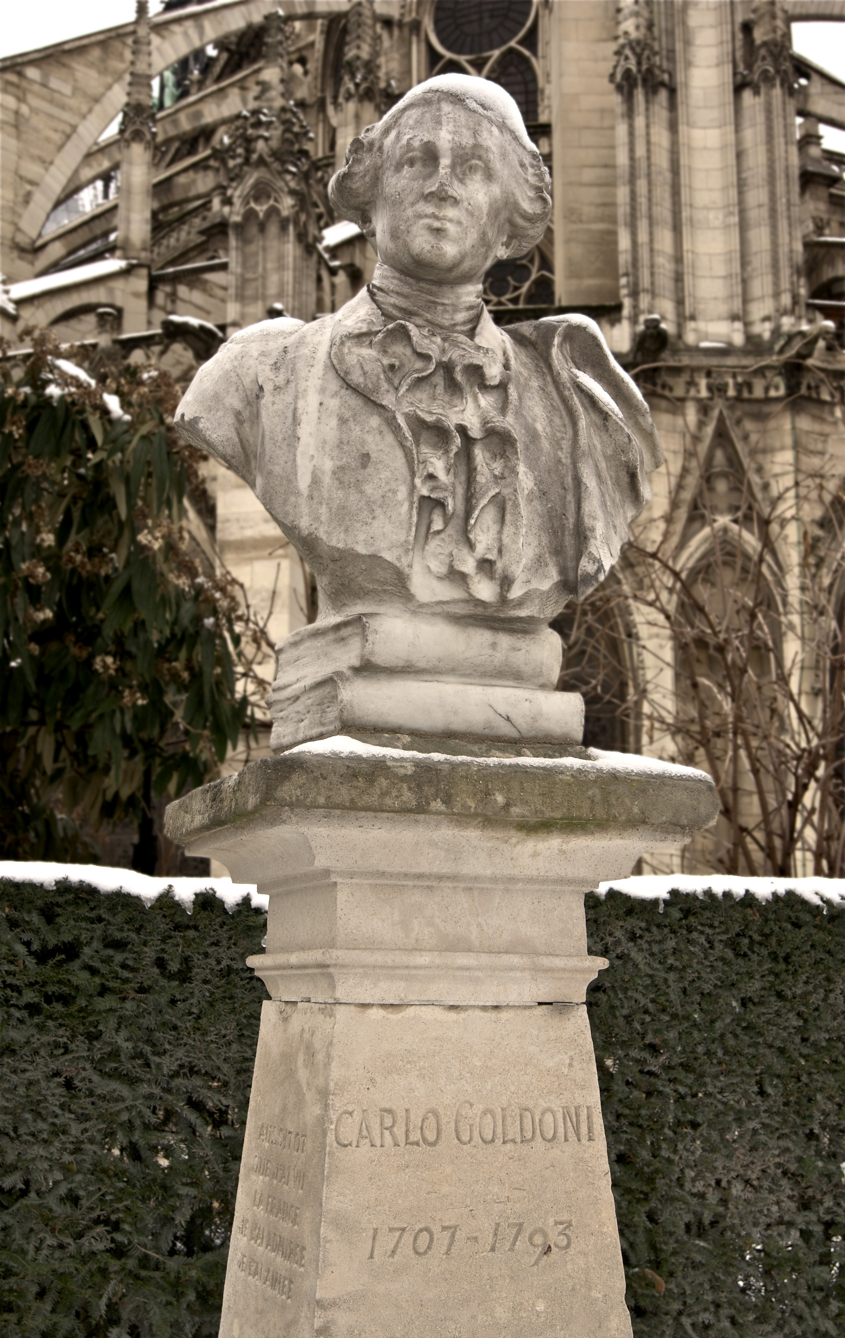 Carlo Goldoni, (1707-1793), bust under snow, in Paris. The inscription on the side of the pedestal says: Aussitôt que j'ai vu la France, je l'ai admirée, je l'ai aimée (As soon as I saw France, I admired her, I loved her).